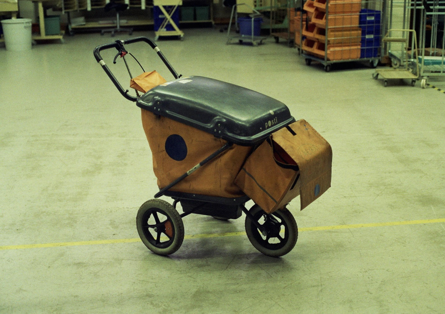 Photographed in Oulu, Finland, a Finnish post cart used by the mail carriers of Itella.